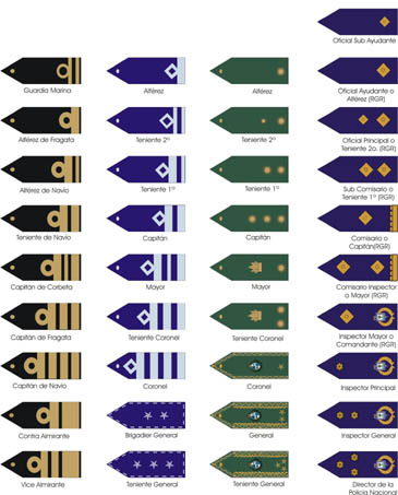 Jerarquias de las FF.AA. de Uruguay (Ranks of the Armed Forces of Uruguay; presumably in the order Navy, Air Force, Army, & National Police)